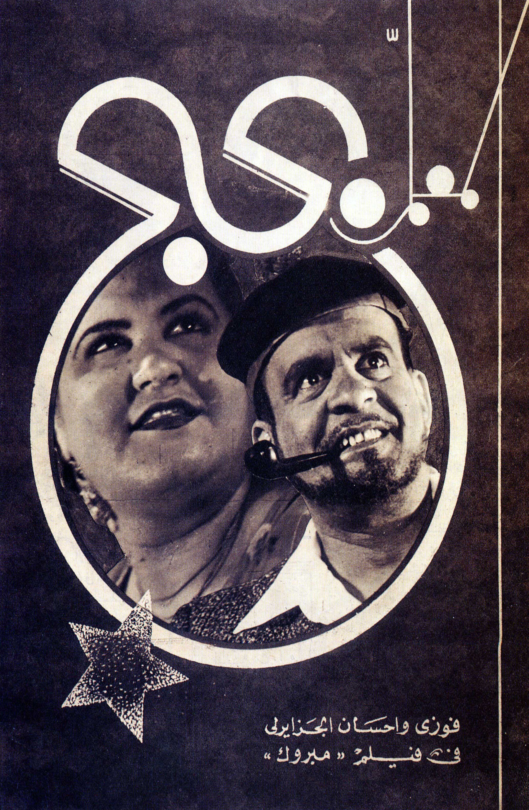 Movie poster of the Egyptian film El muallem Bahbah (1936).[1]